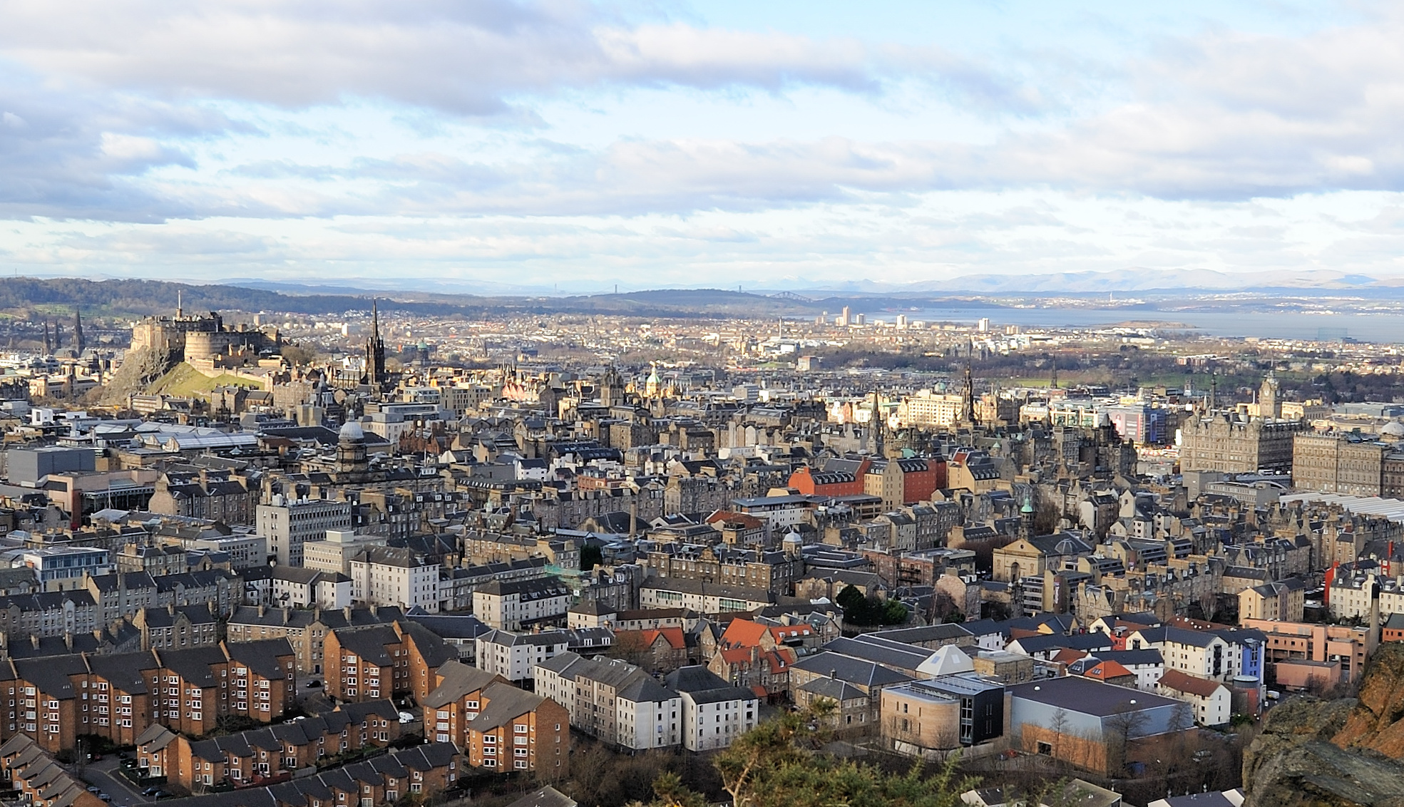 Ediburgh City overview from the Salisbury Crags. Ediburgh Castle still dominates the skyline from its vantage on top of Castle Rock.